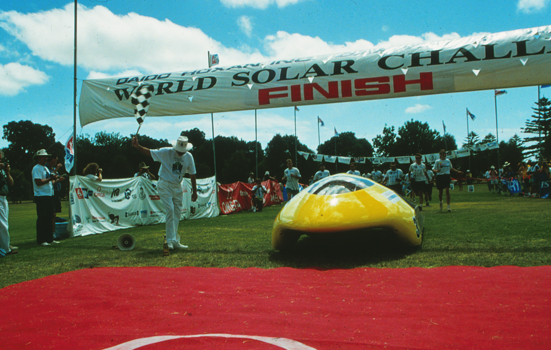 1993 University of Michigan solar car crossing the finish line of the World Solar Challenge in Australia